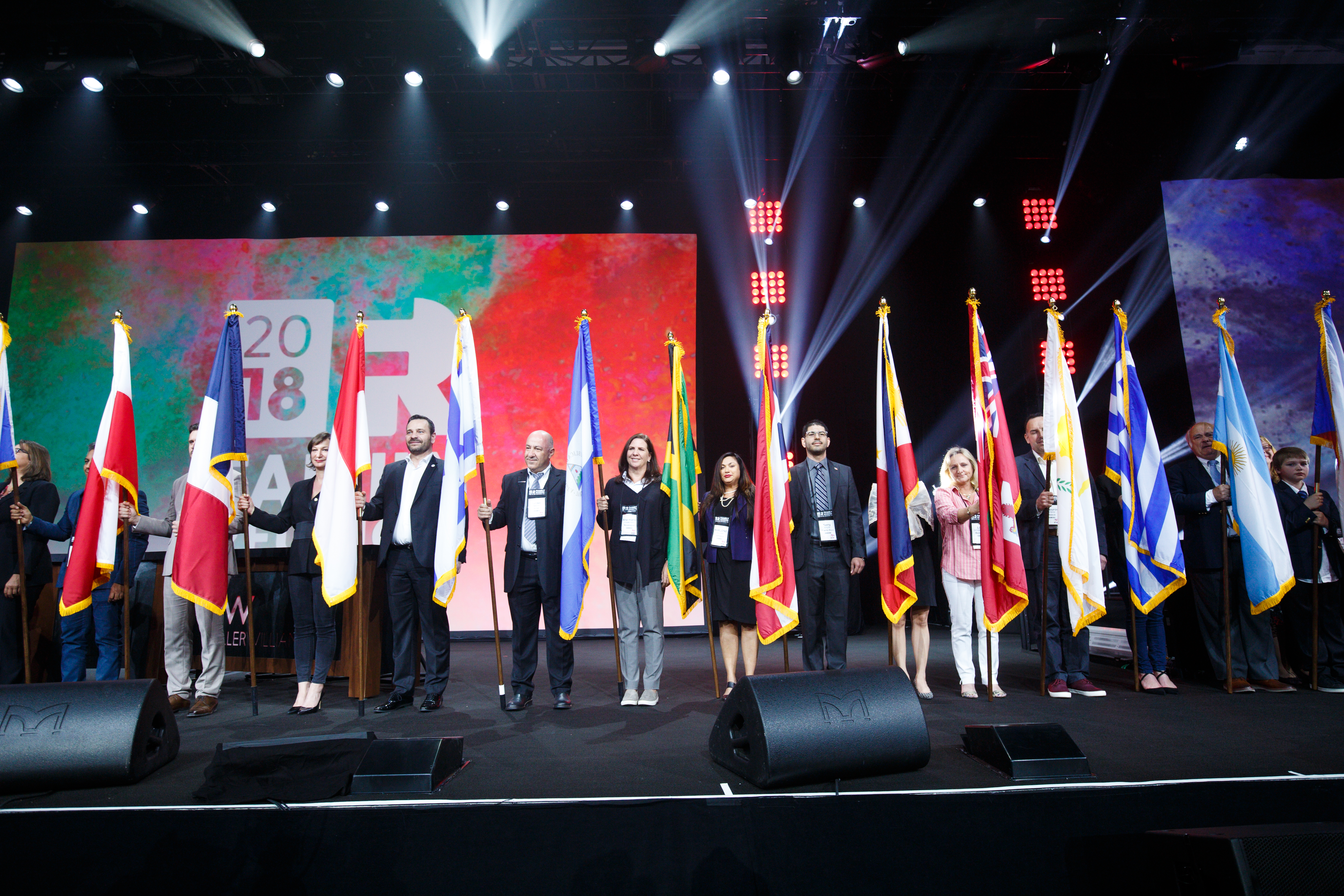 Opening ceremony highlights